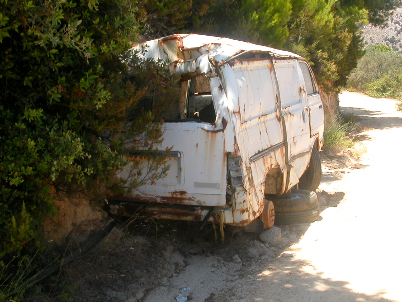 Wreck of a car near Christos Raches, Icaria